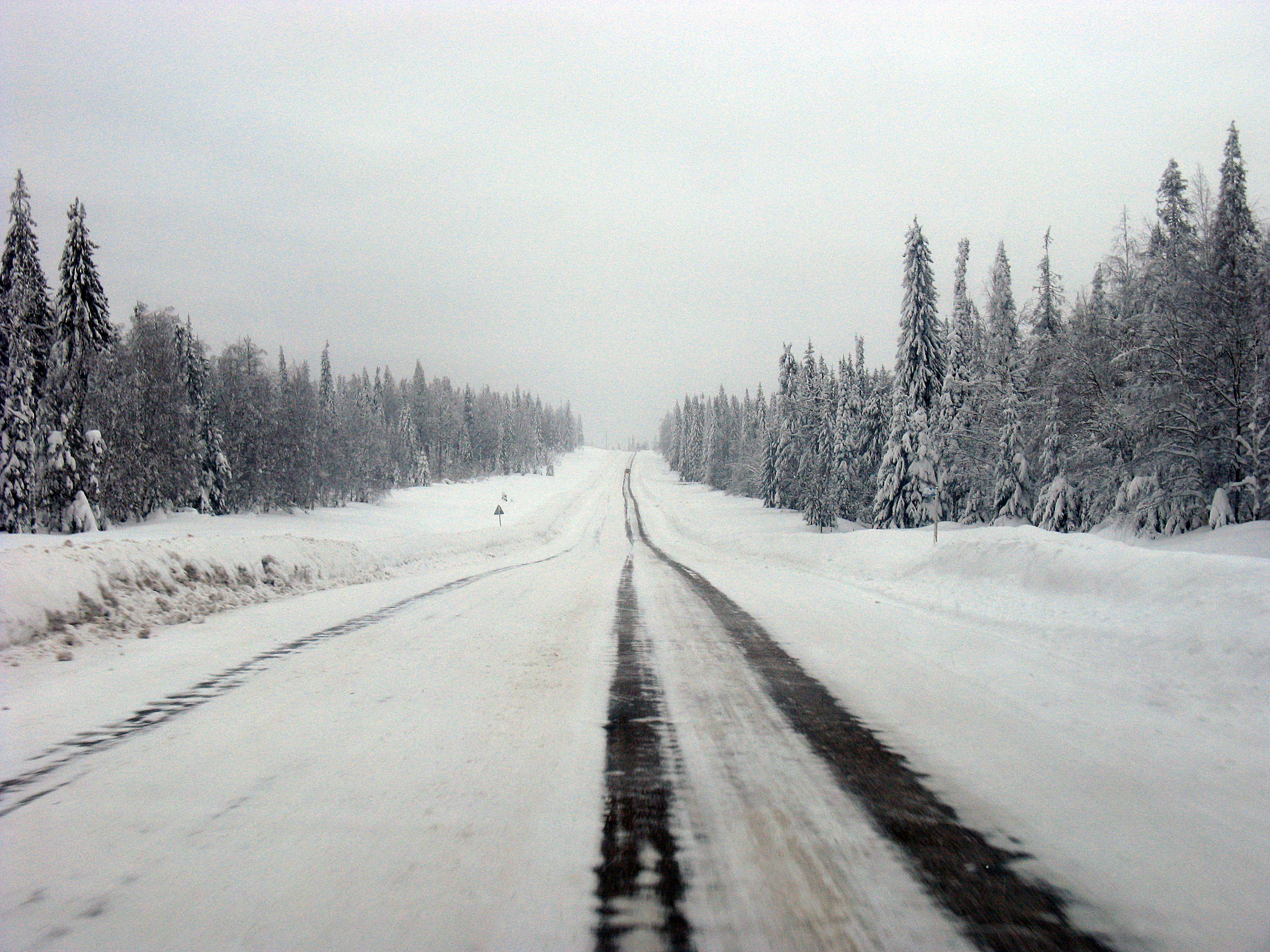 Winter road in Perm Krai